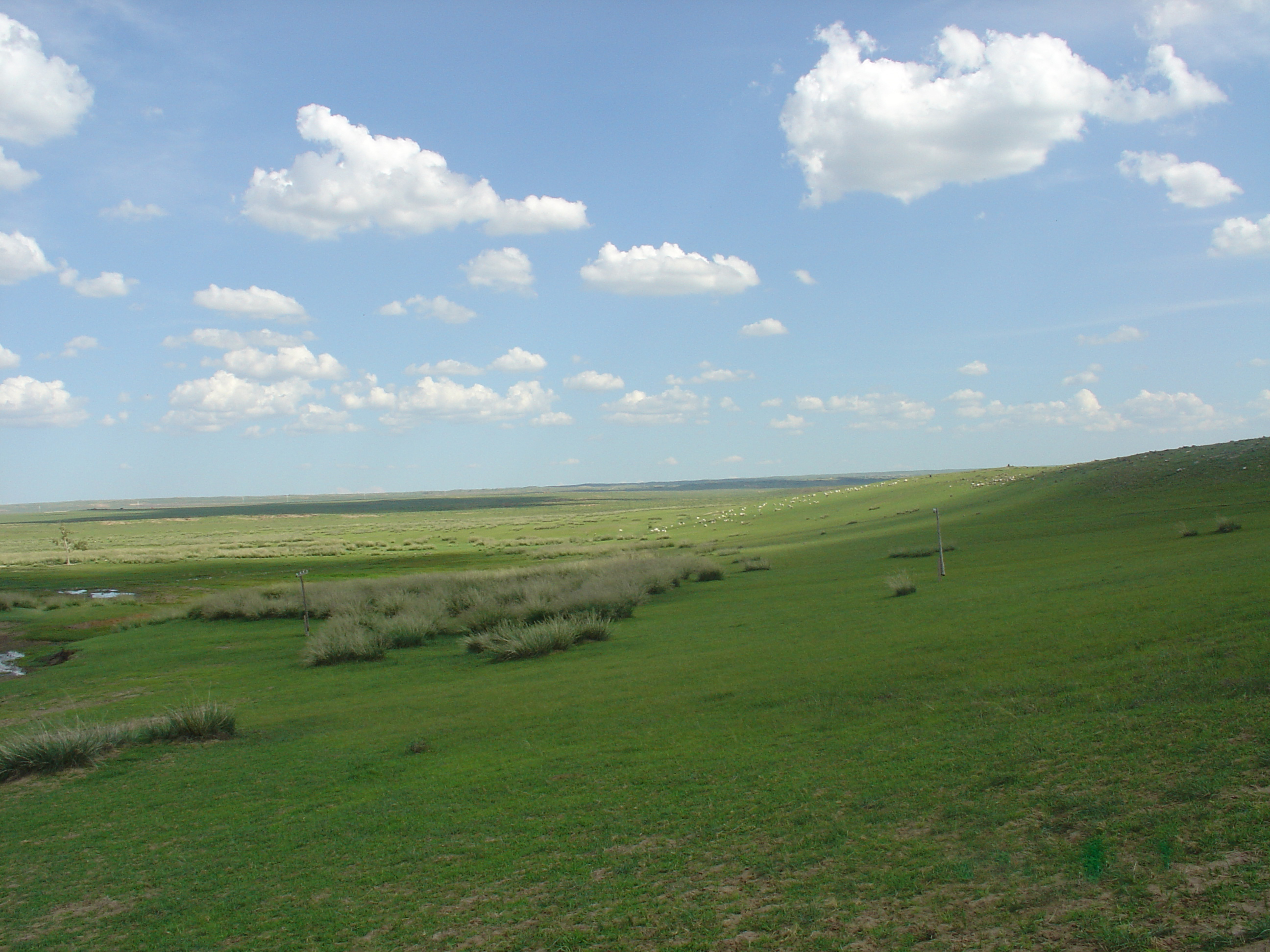 Grassland of Inner Mogolia